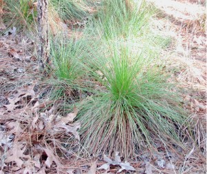 Picture from English Wikipedia. longleaf pine Pinus palustris: grass stage. Upoaded 01:46, 17 February 2004 by user. Pollinator (Talk contribs) . . 300×252 (42,770 bytes) (longleaf pine: grass stage).